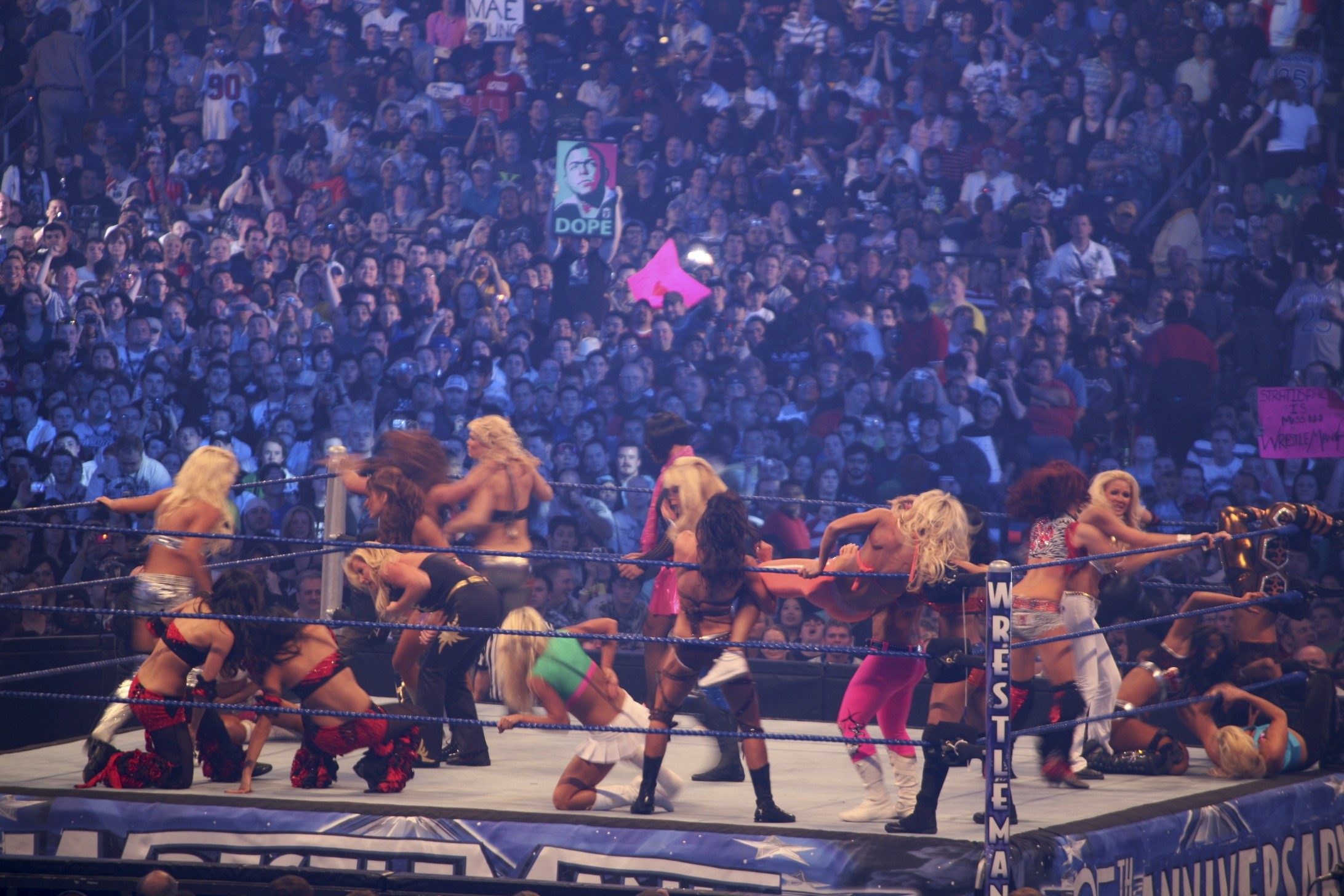 Diva Battle Royal during Wrestlemania 25 at Reliant Park in Houston Texas 2009